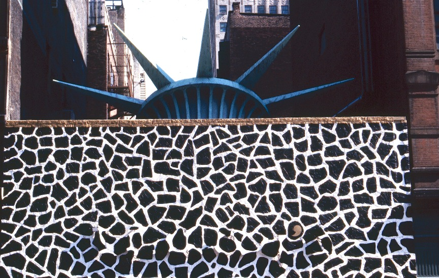 El Internacional Tapas Bar & Restaurant, art project led by Antoni Miralda and Montse Guillén during 1980s in TriBeCa, NY